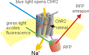 Scheme of Channelrhodopsin-2 activation